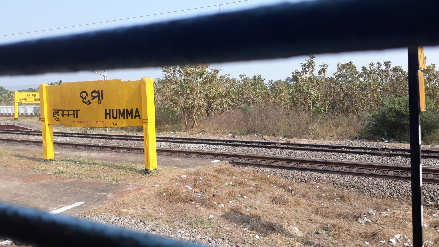 This is the Picture of Humma railway station